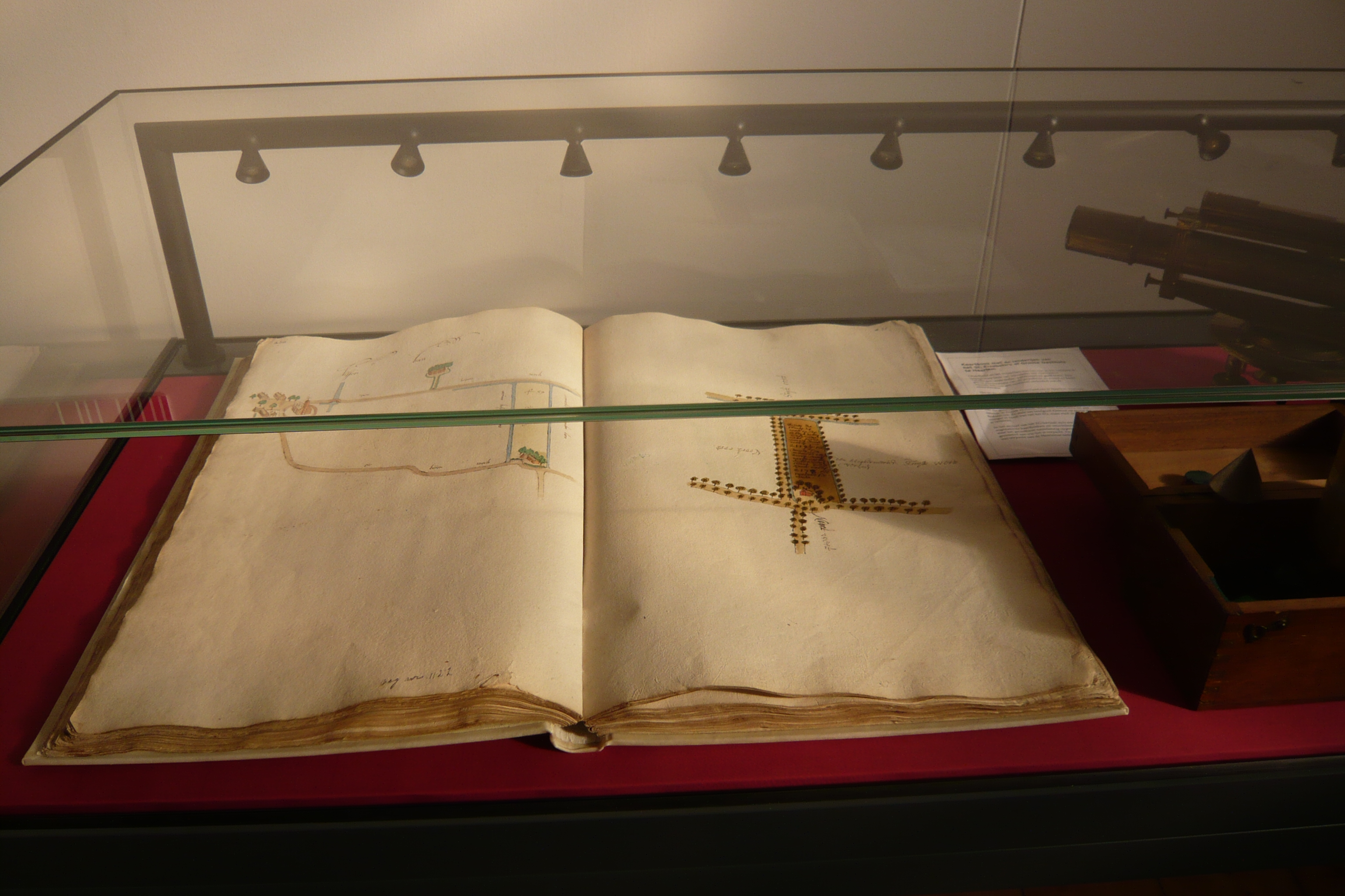 "Kaartboek met de landerijen van het St. Elsabeth's of Groote Gasthuis te Haarlem"